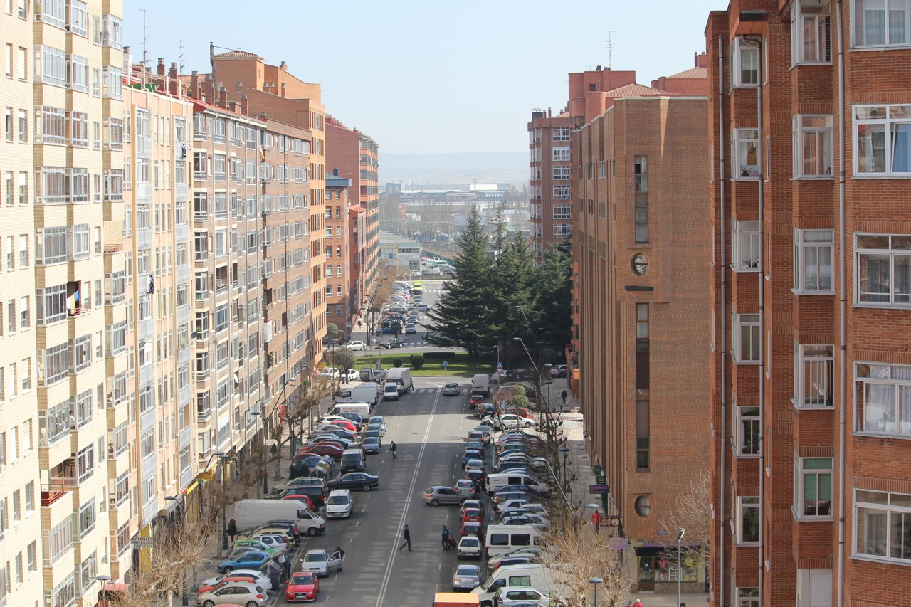 Gamonal neighborhood in east Burgos